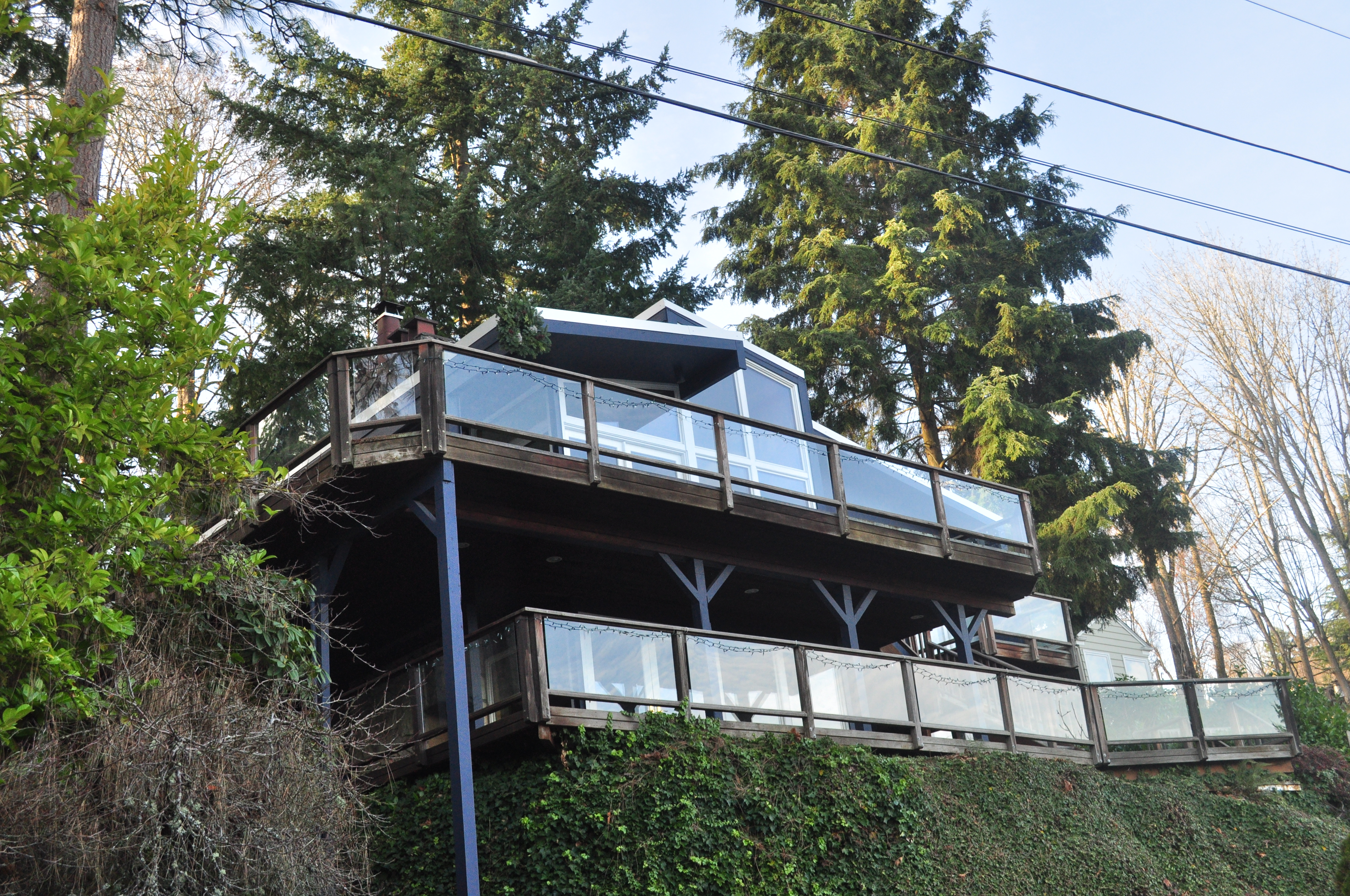 11205 Lakeside Ave NE , Seattle, Washington in the Matthews Beach neighborhood. An example of Northwest Regional style architecture.